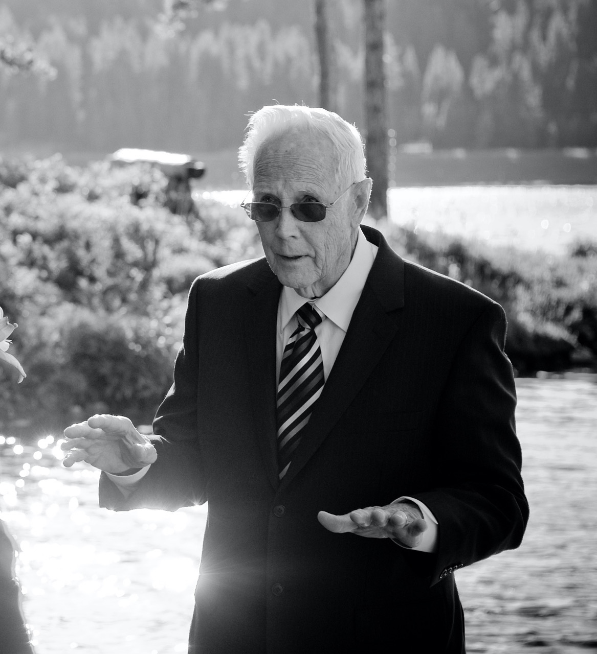 Bob Mcpherson at Breckenridge, CoO wedding - 2009